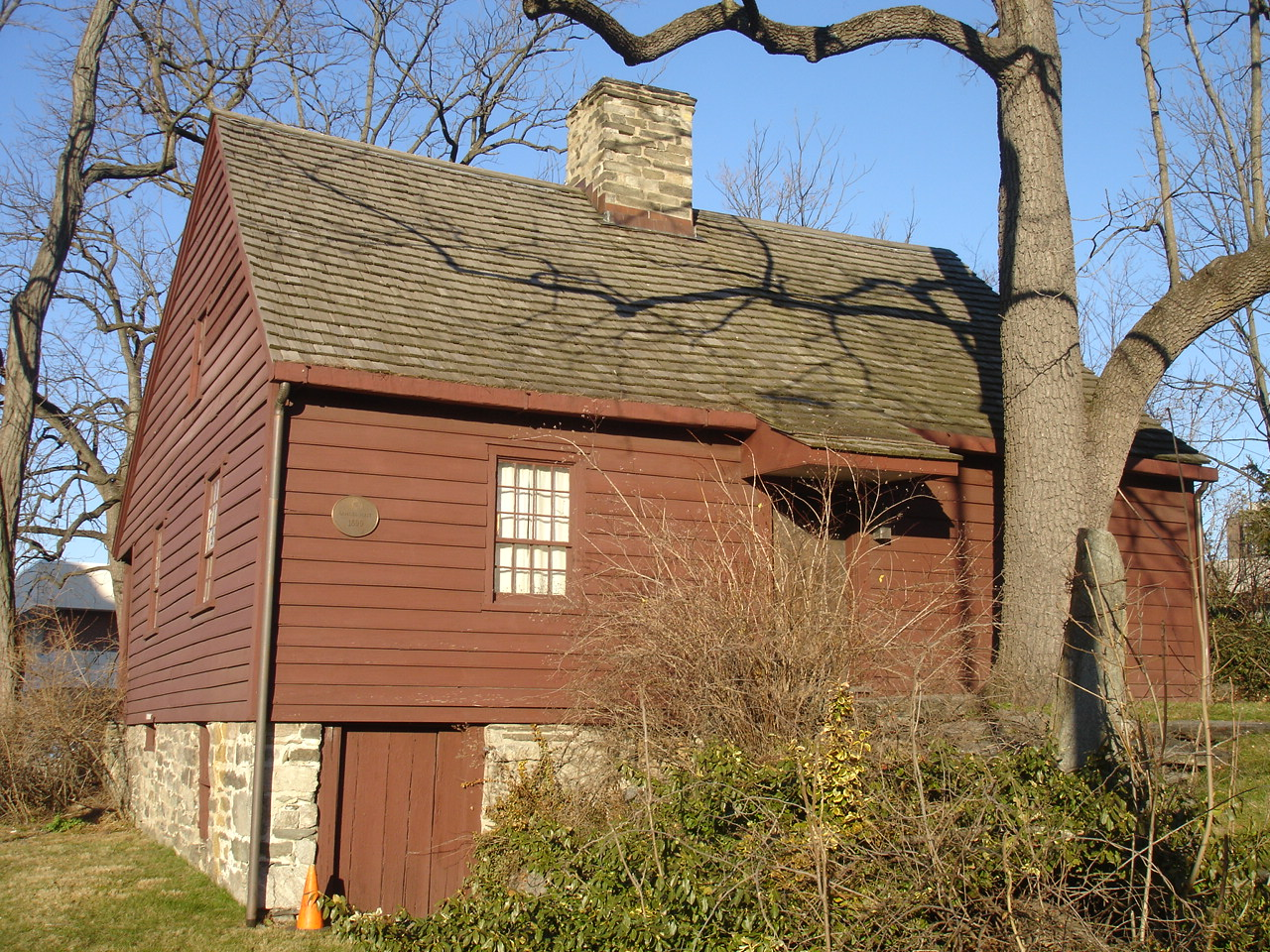 The Hoyt-Barnum House at 713 Bedford St. Stamford, Connecticut